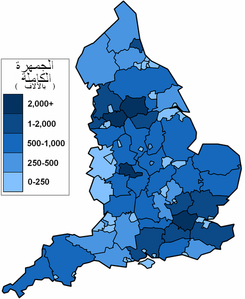 Counties of England by population, based on GNU map here as listed on List of English counties by population